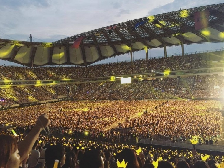 65,000 fans in BIGBANG Concert 0.TO.10 in Seoul - August 20, 2016